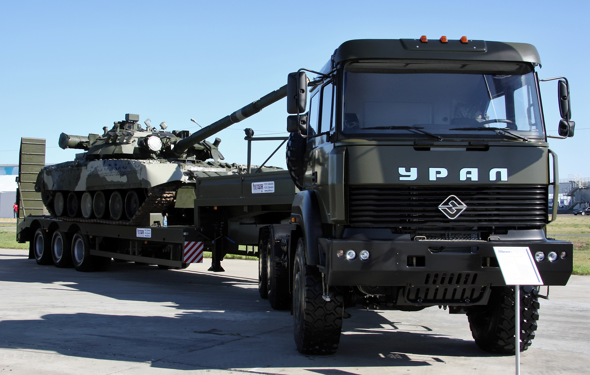 Ural-63704 tank transporter with a T-80 main battle tank in Russia.